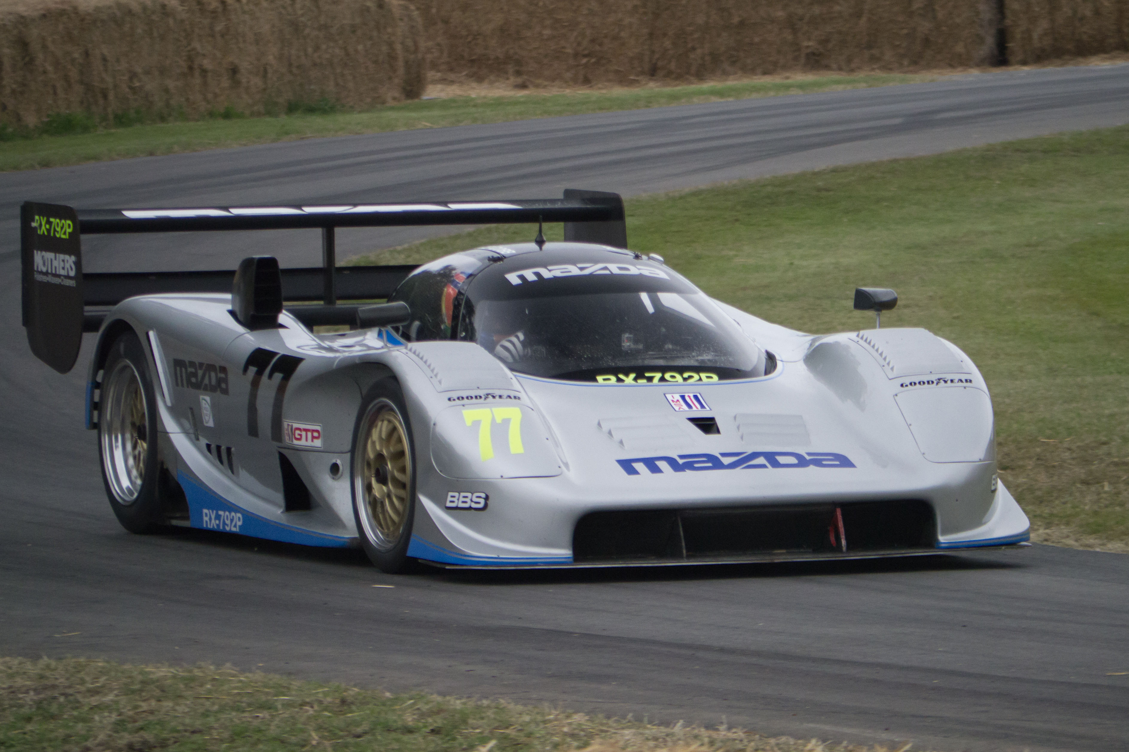 chassis built by Crawford Composites based in Denver, North Carolina